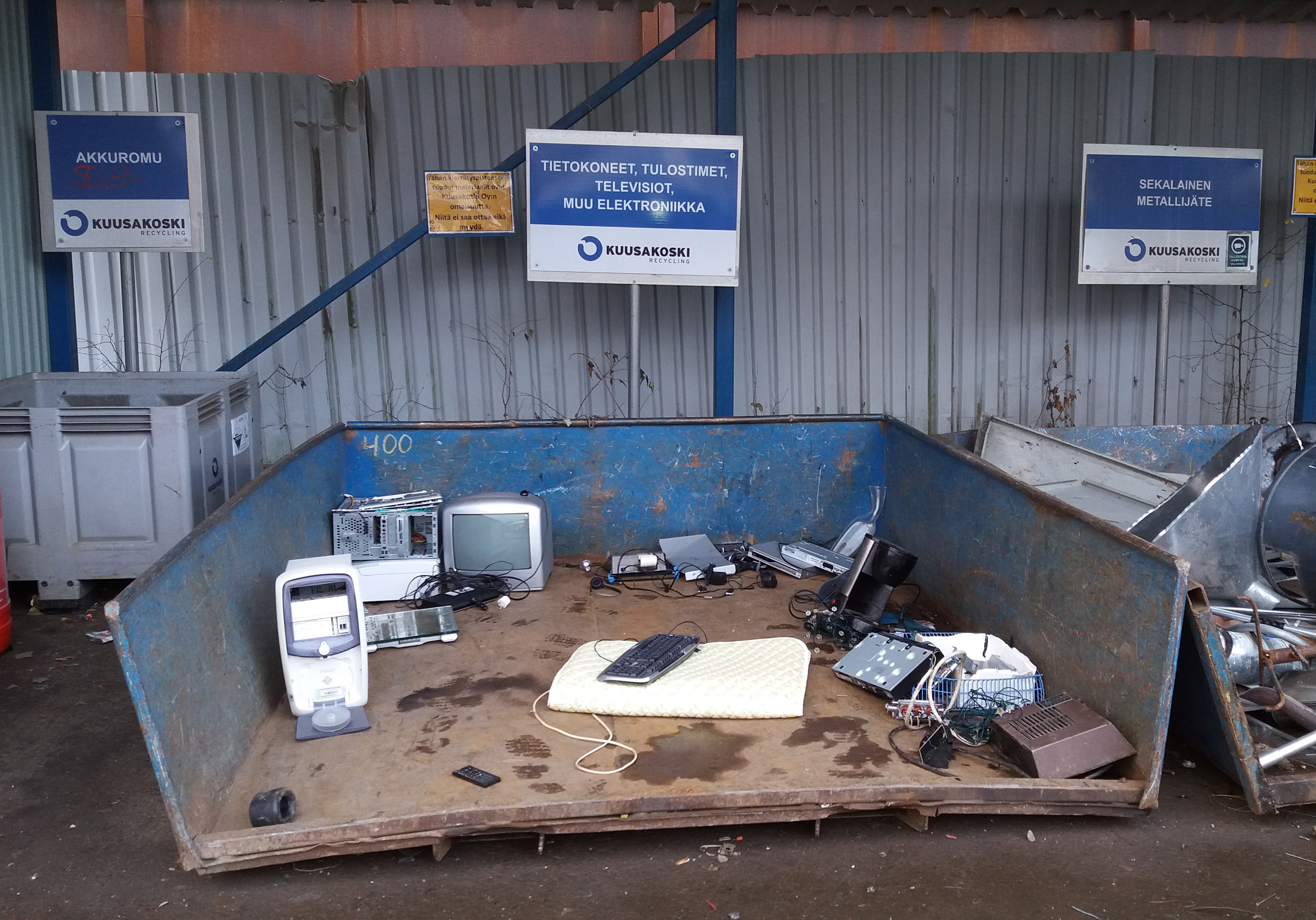 Electronic waste in Kuusakoski recycling, Jyväskylä.